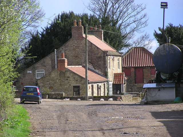 Low Walworth Farm. Just west of Darlington.